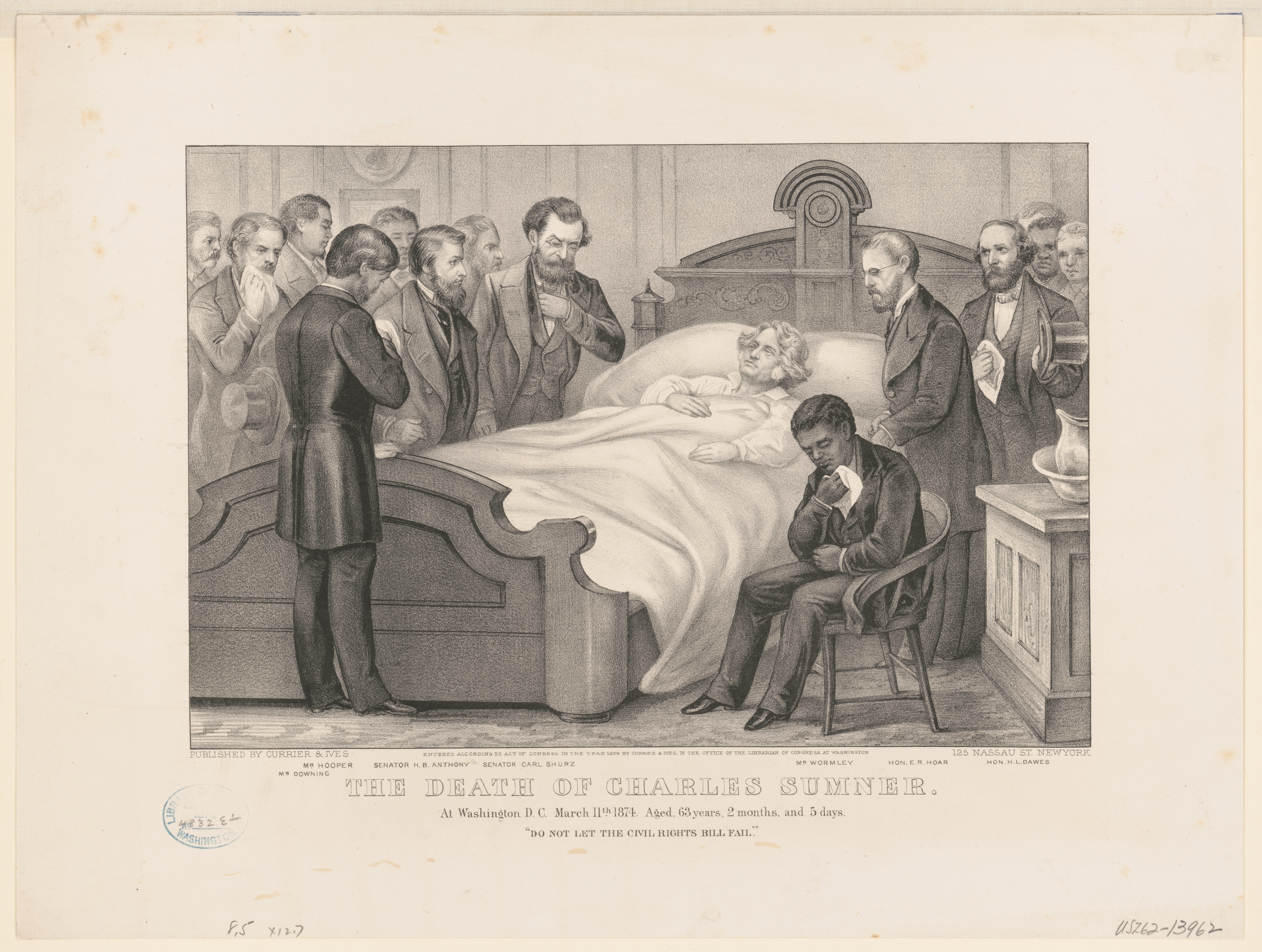 The Death of Charles Sumner: At Washington D.C. March 11th 1874. Aged, 63 years, 2 months, and 5 days